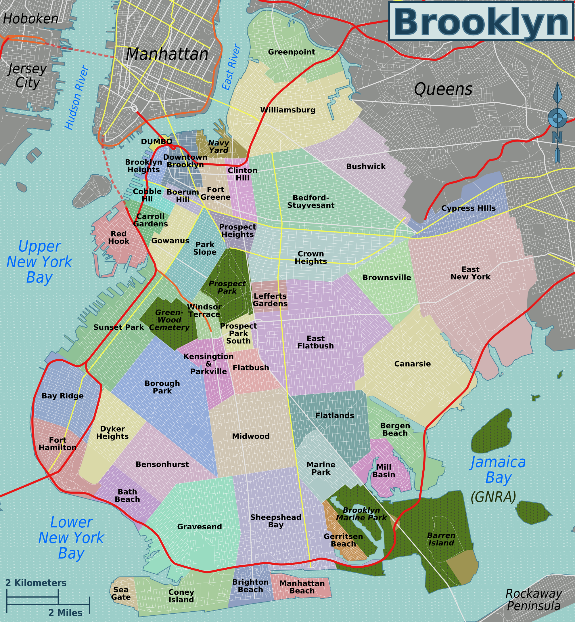 Map of Brooklyn's neighborhoods. Exported as PNG from SVG version available for download here